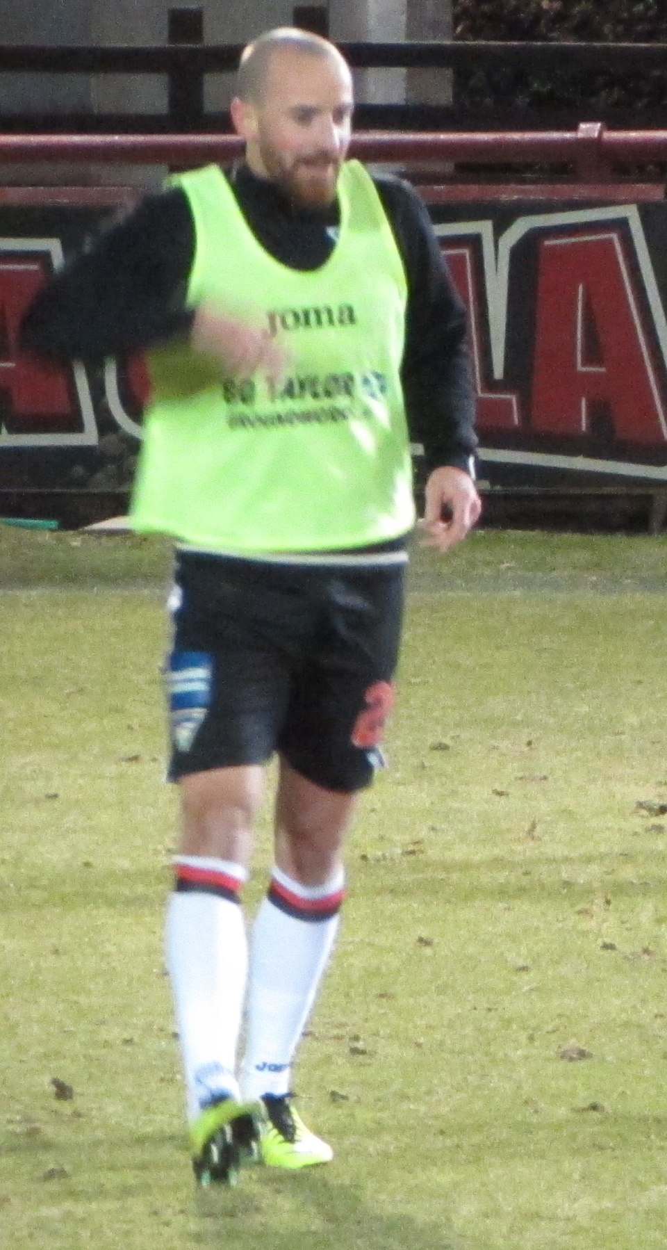 James Vincent, Callum Morris, Nat Wedderburn pre-match for Dunfermline Athletic at Glebe Park, Brechin (20/03/18)